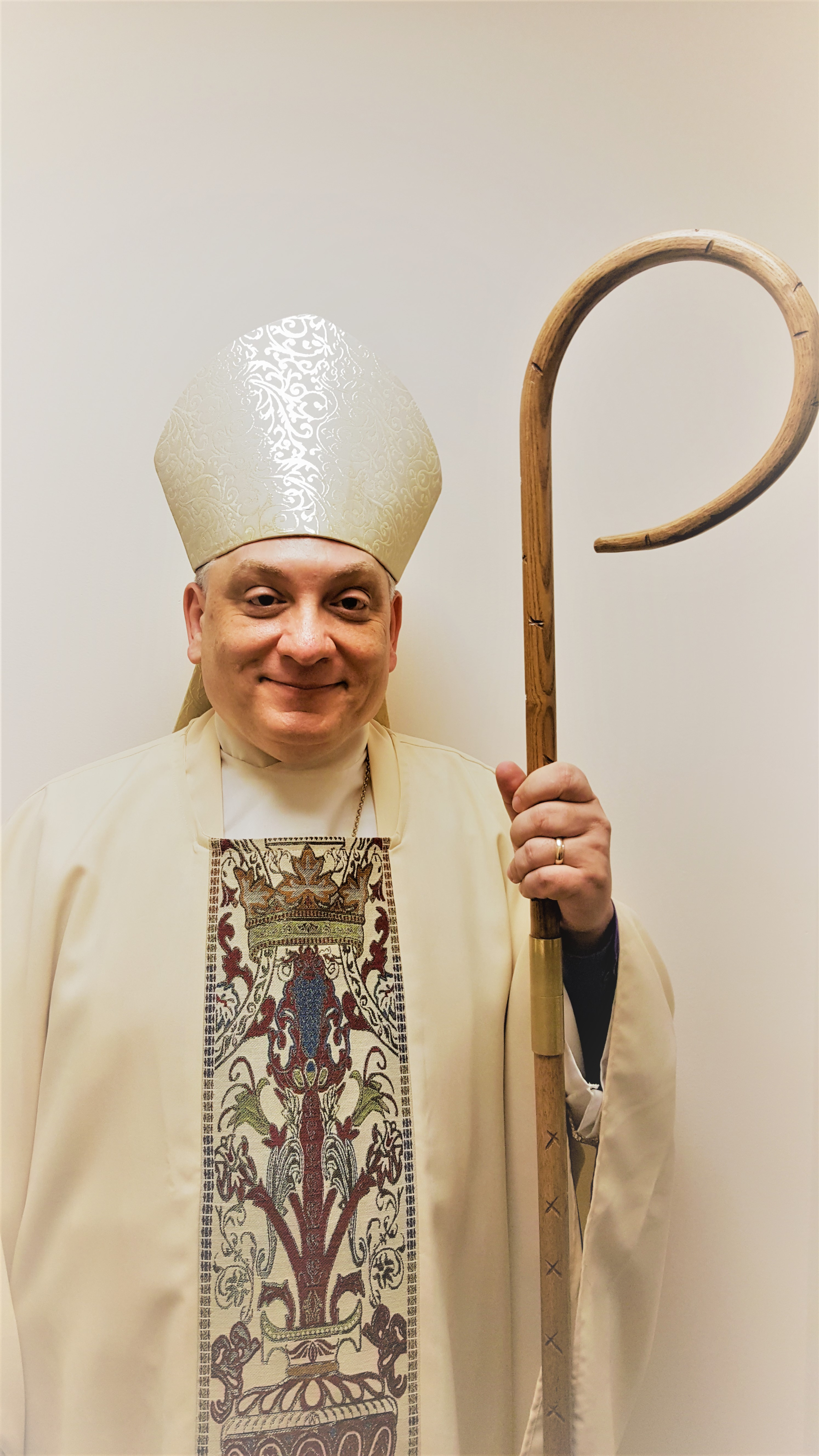 This is a photo of Bishop David L. Hicks, Bishop Ordinary of the Reformed Episcopal Church Diocese of the Northeast and Mid-Atlantic and Vice-President of the Reformed Episcopal Church after preaching and presiding over the last Holy Eucharist/Communion service at the Reformed Episcopal Seminary (Blue Bell, PA) for not only the Easter Quarter but the Academic Year for 2017-2018.